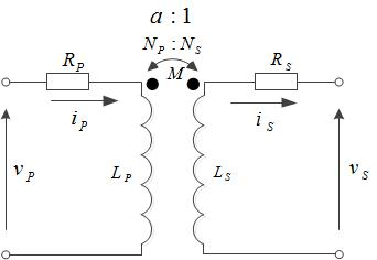 Basic two-winding transformer circuits